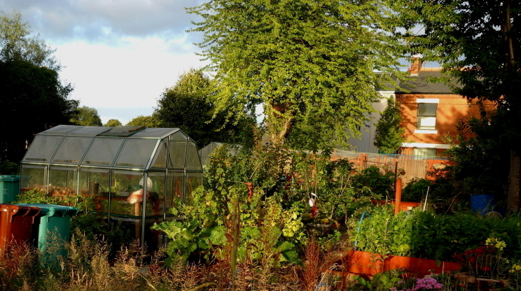 Moss Side Community Allotment - An allotment in Moss Side that is open to the community to grow and distribute organic produce.